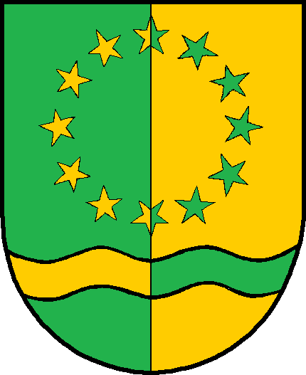 Coat of arms of the former Amt (county) Kirchspielslandgemeinde Hennstedt in Schleswig-Holstein, Germany.